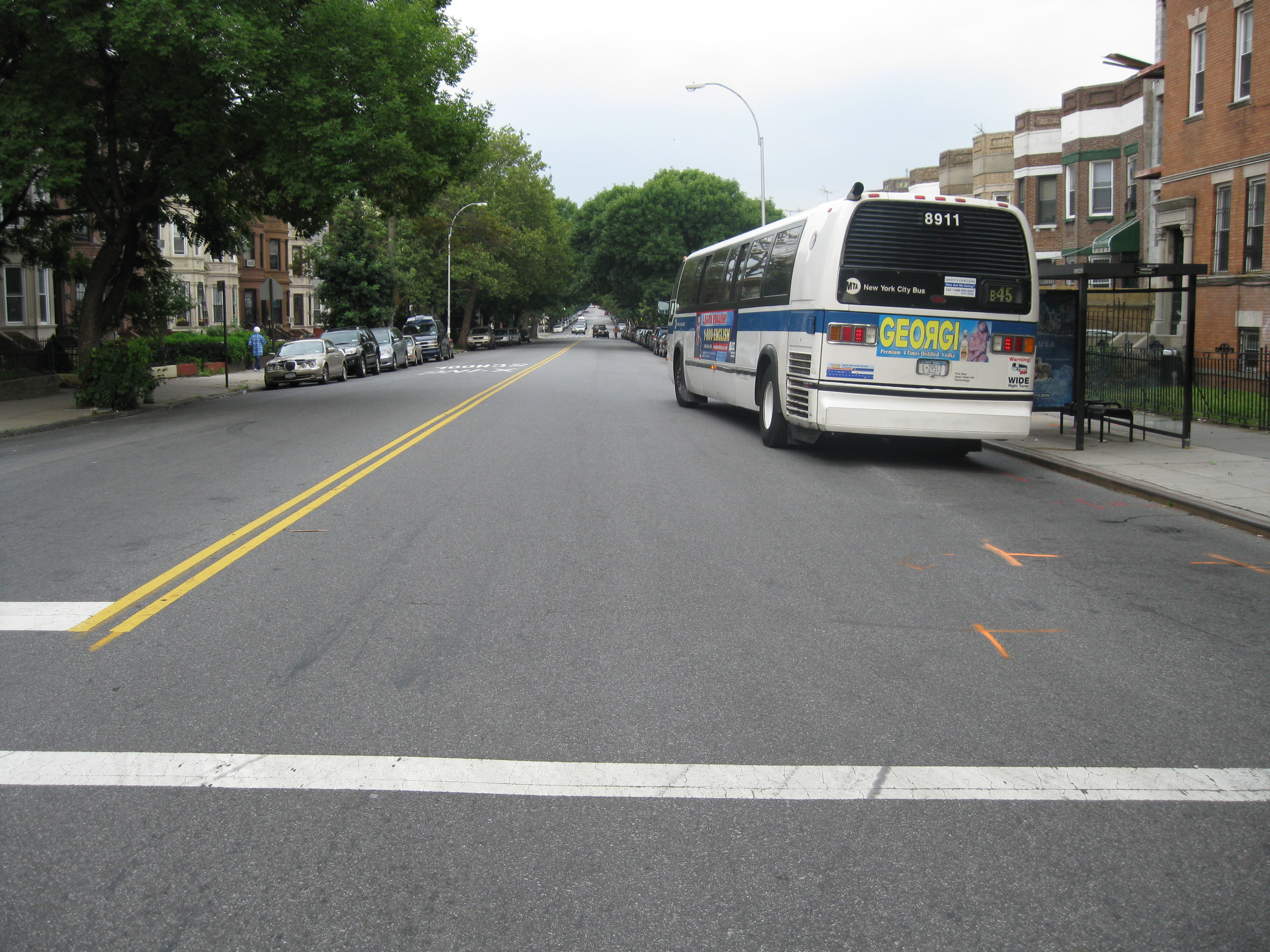 Eastbound B45 Bus on St. John's Place in Brooklyn, NY